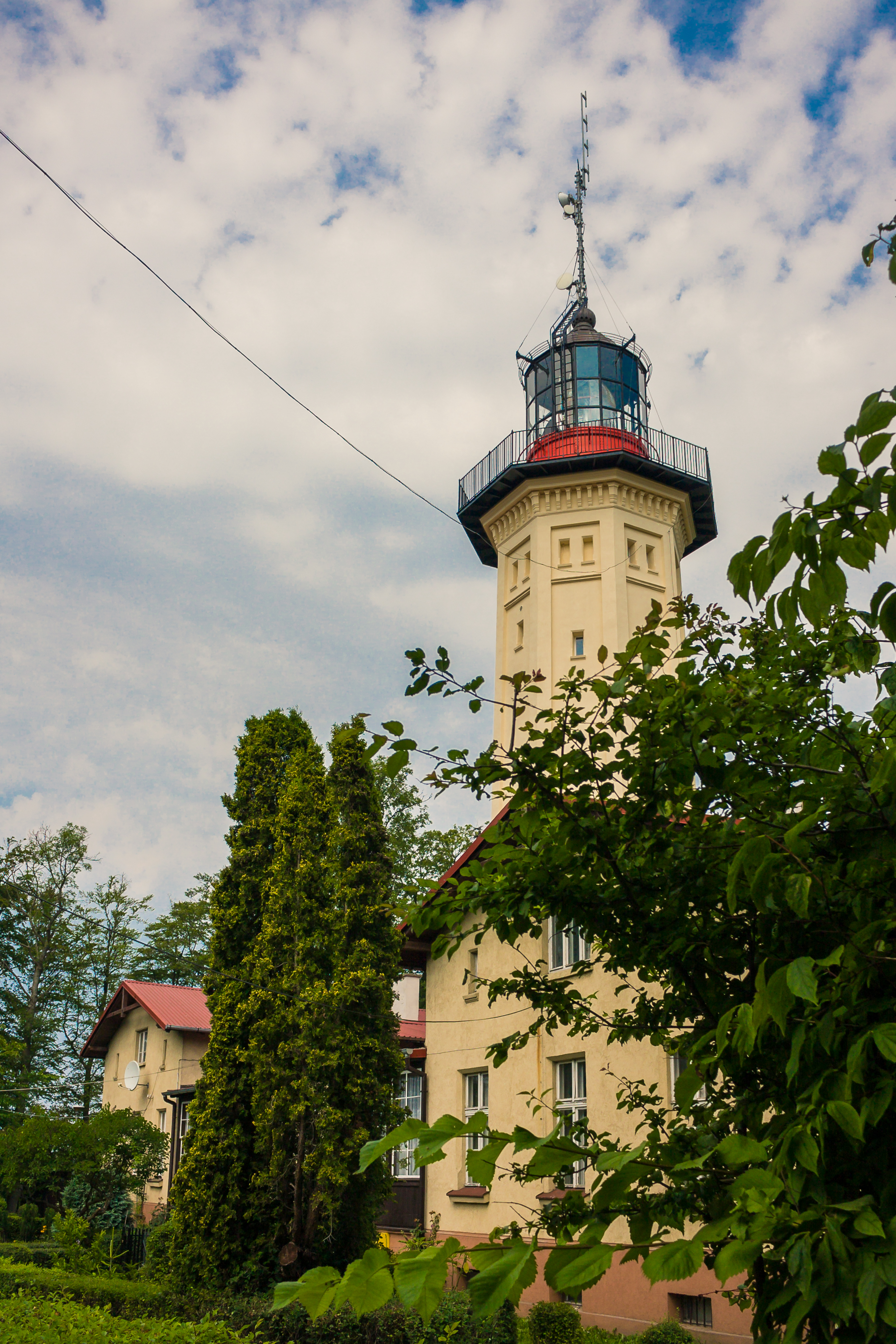 Photo taken during a trip on the Polish coast in July 2018. An expedition co-financed by the Wikimedia Poland Association and the Society of the Friends of the National Maritime Museum in Gdańsk.